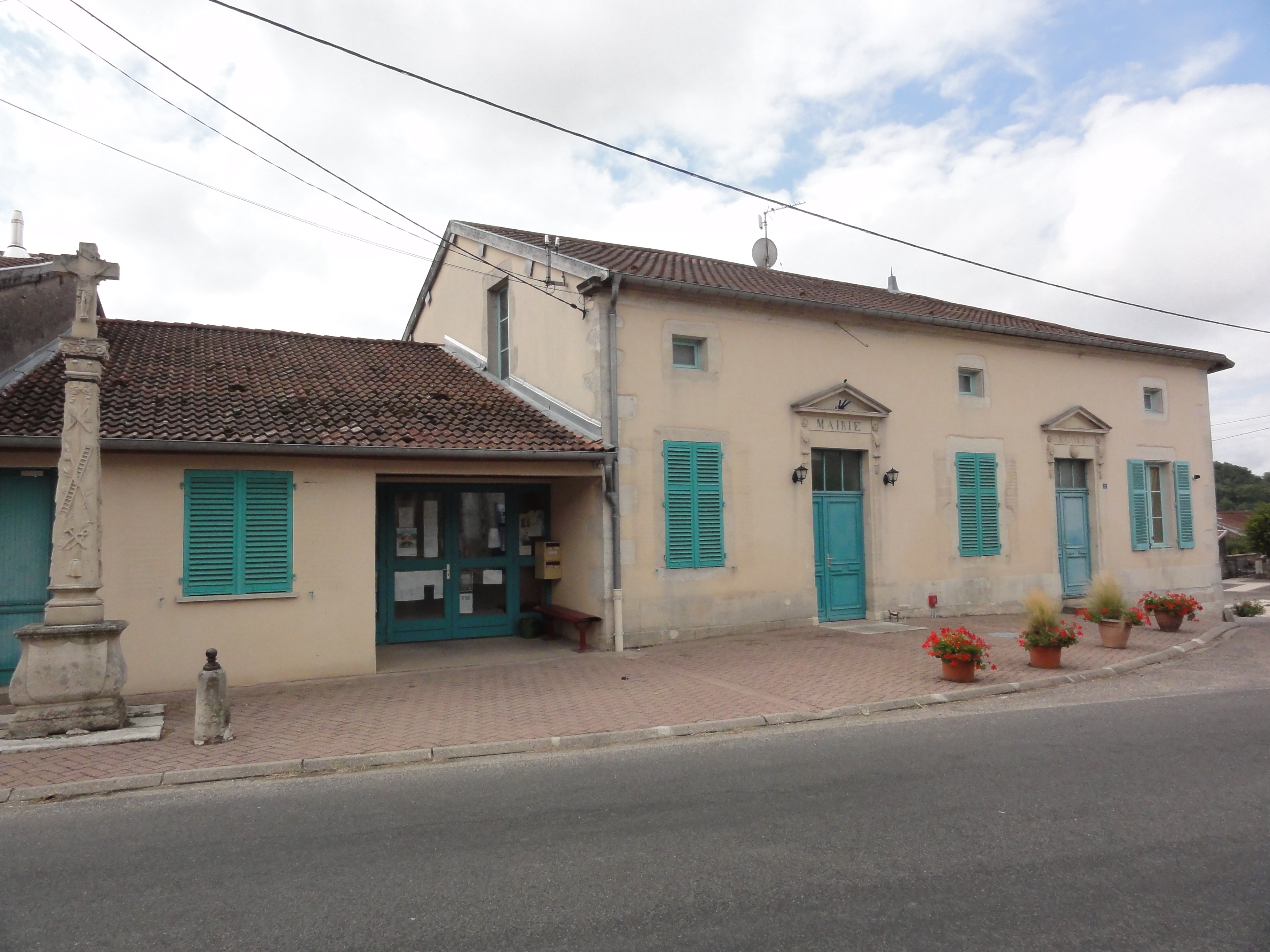 Boviolles (Meuse) mairie et croix de chemin